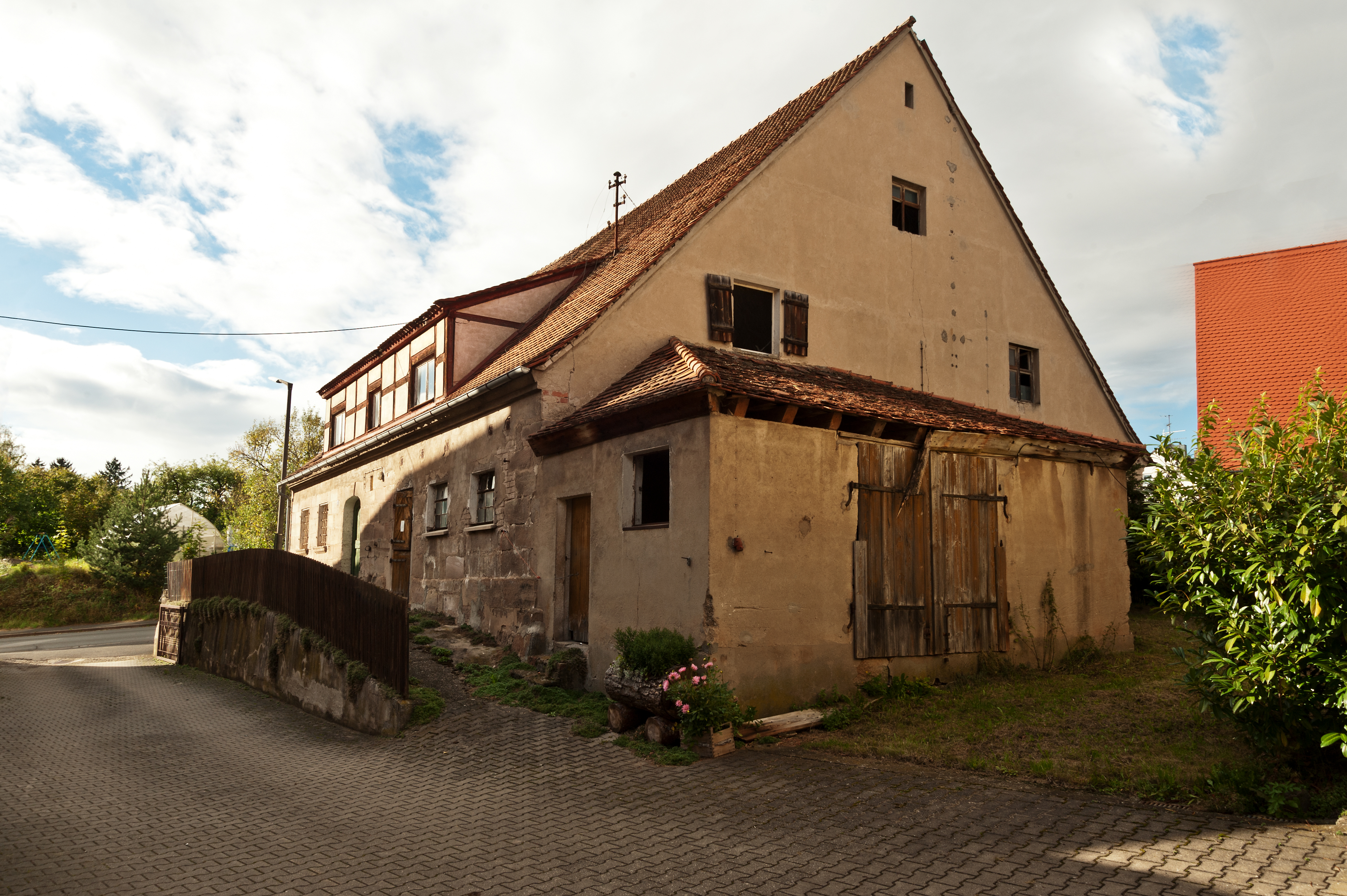 This is a photograph of an architectural monument.